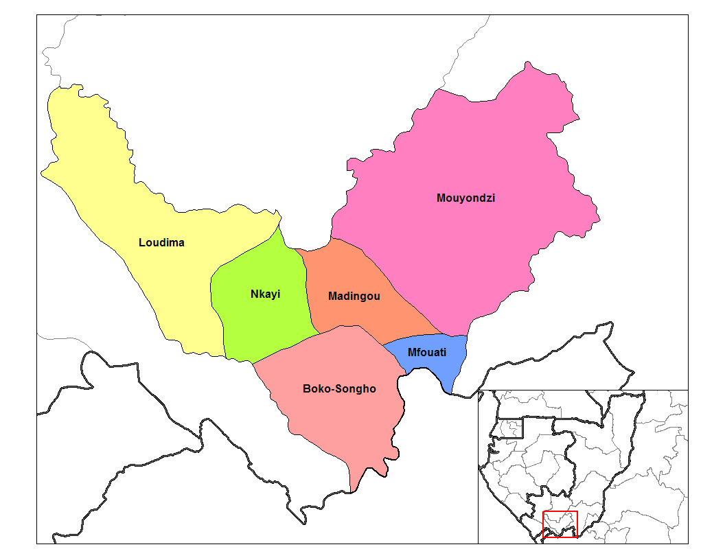 Map of the districts of Bouenza district in the Republic of the Congo. Created by Rarelibra 13:18, 12 September 2006 (UTC) for public domain use, using MapInfo Professional v8.5 and various mapping resources.